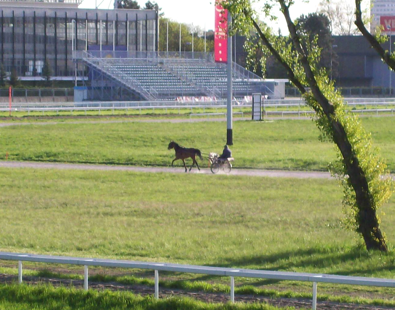 Hippodrome in Zagreb, Croatia